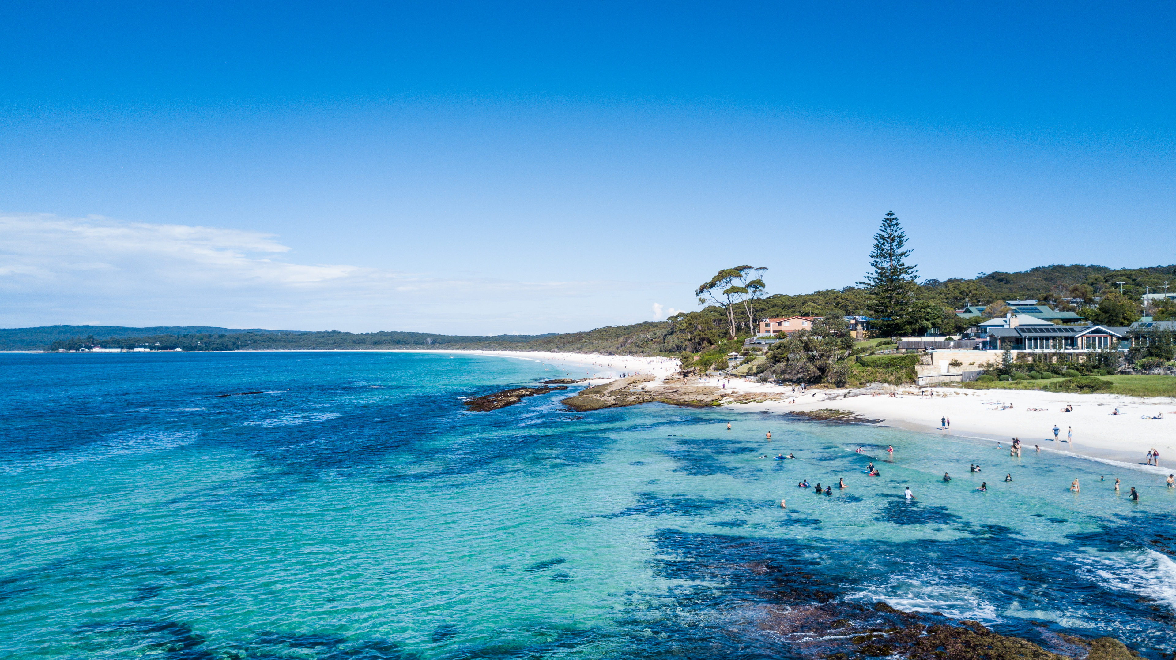 This is a drone photo of Hyams Beach looking down towards Booderee National Park. The whitest sand in the world which is a part of Jervis Bay Marine Park